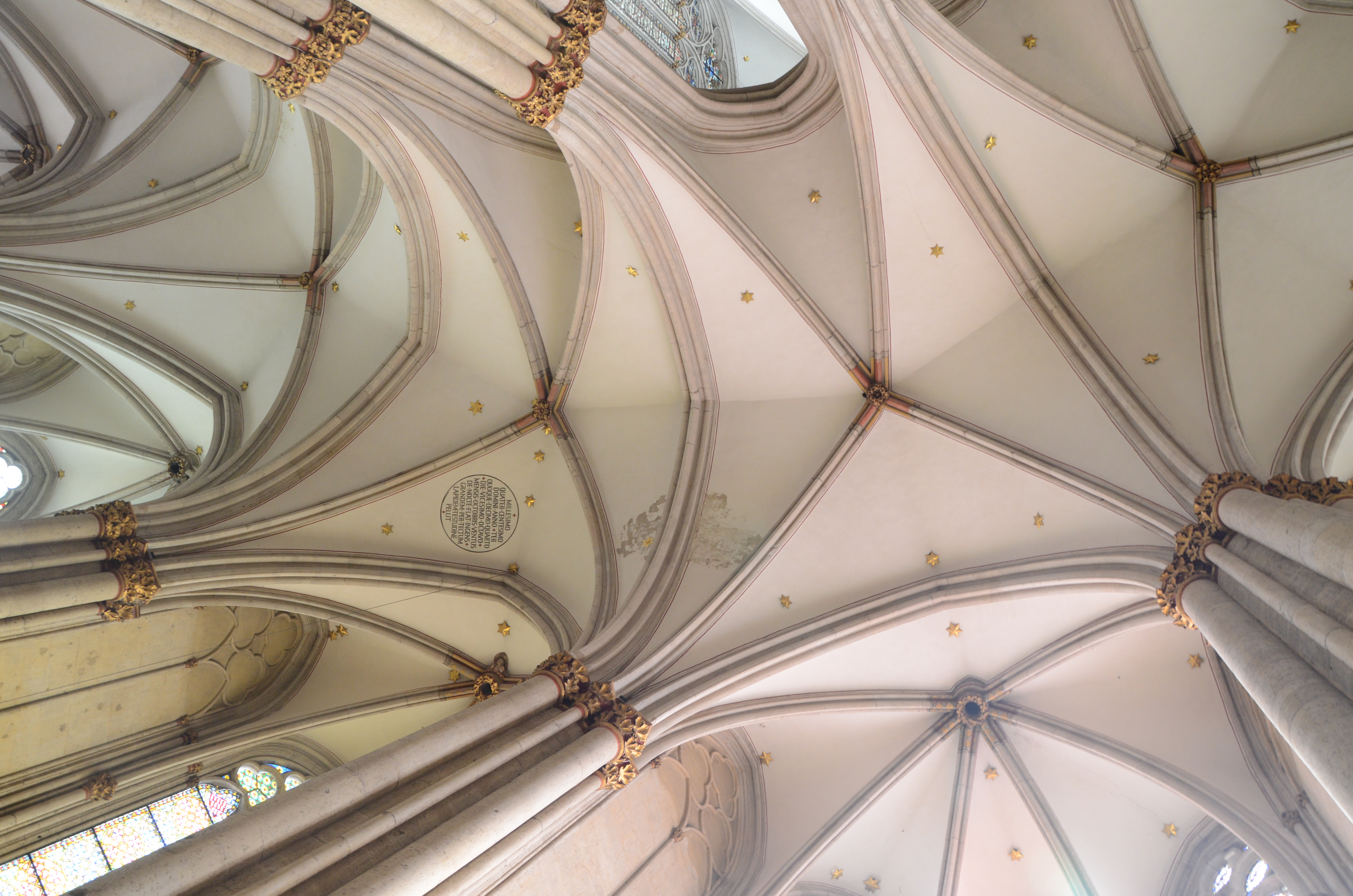 The wonder ceiling of Kölner Dom This is a photograph of an architectural monument.